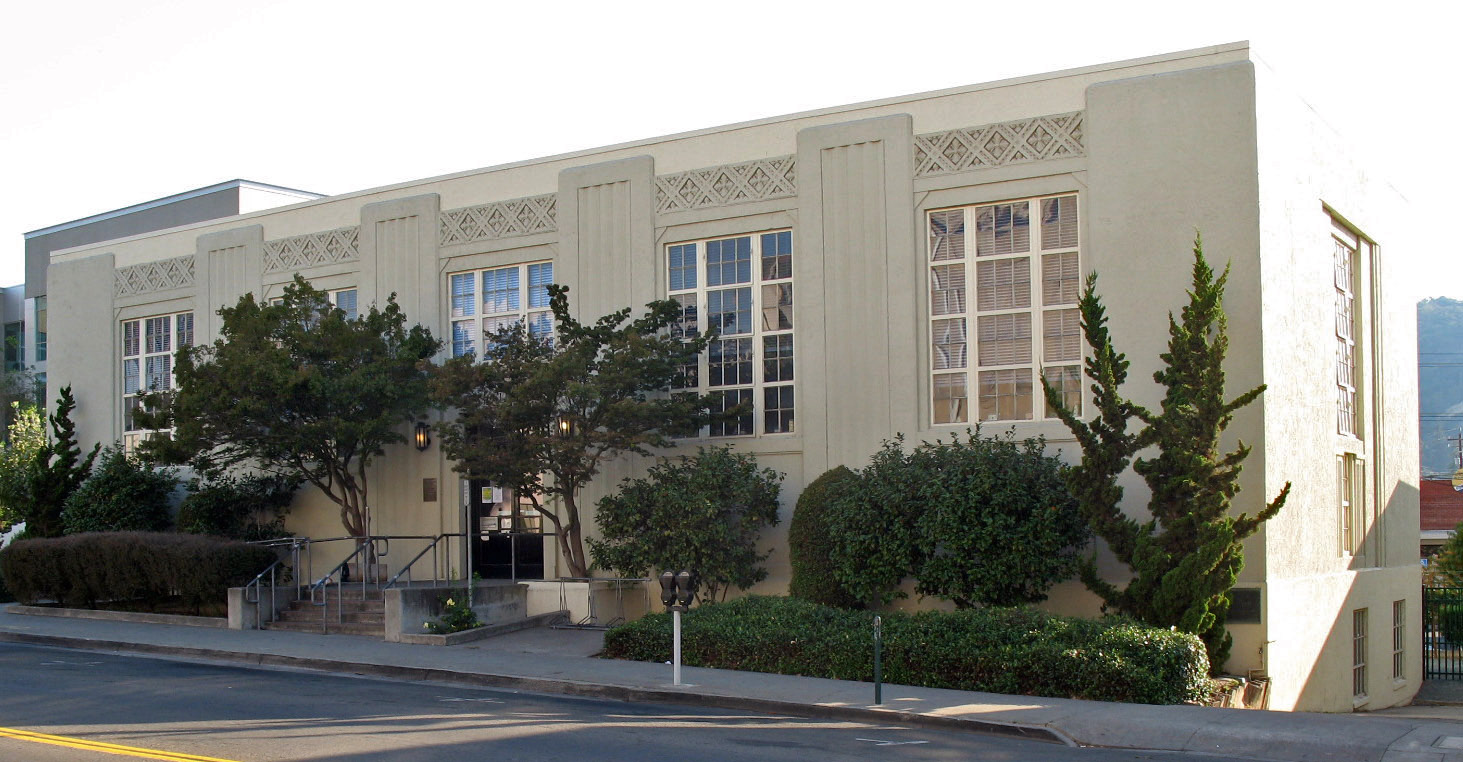 National Register of Historic Places listings in Contra Costa County, California. Martinez City Library, 740 Court St., Martinez, California, USA. Photographed from the east side of Court St. between Main and Ward Sts.